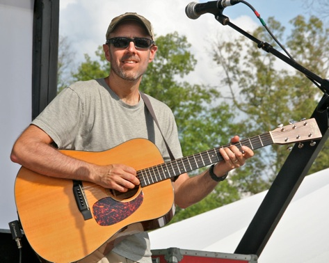 Photo of Al Schnier performing with the band moe. taken June 11, 2009 17:48 CST in Manchester, TN USA at the Bonnaroo Music & Arts Festival.